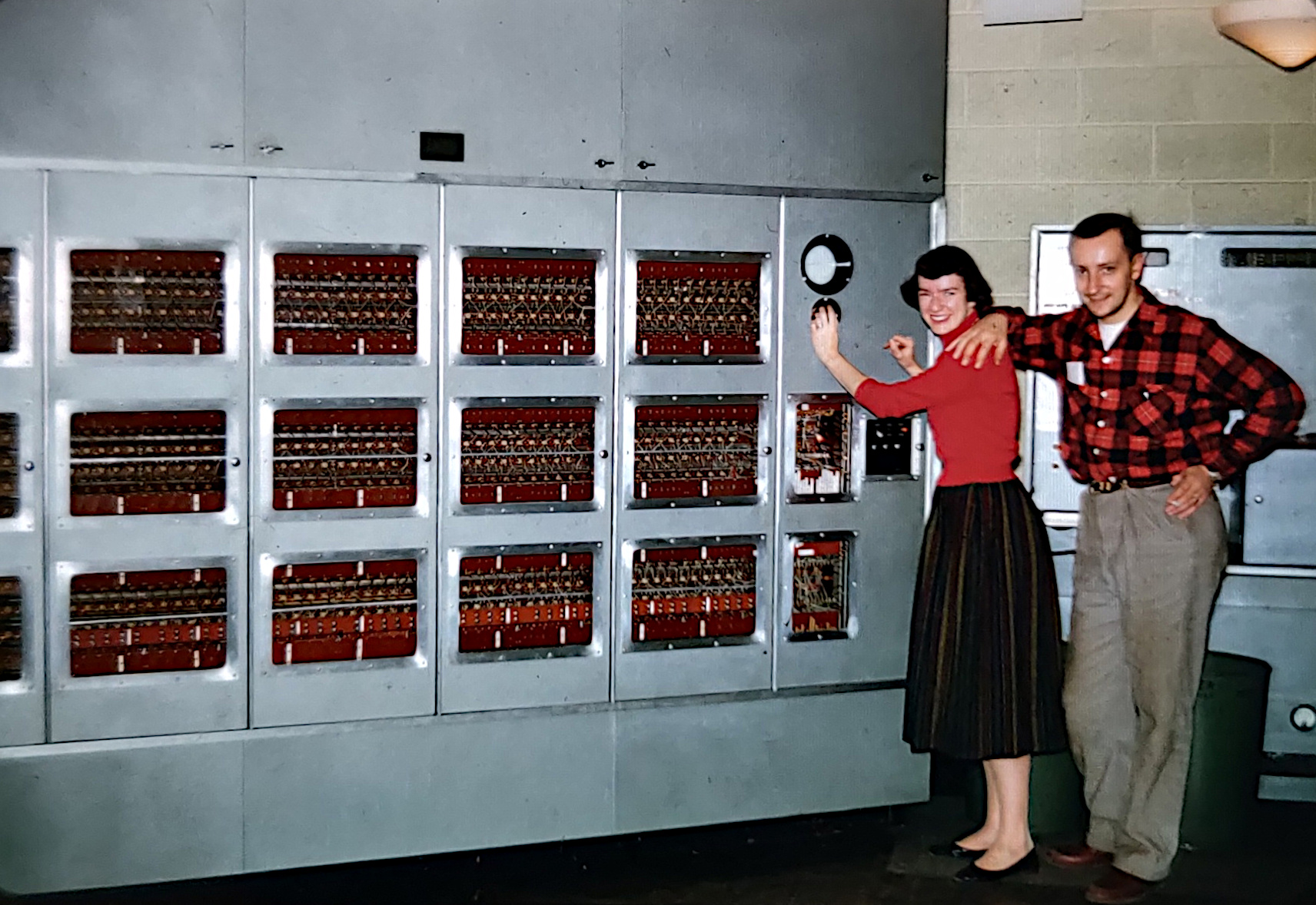 The ILLIAC I computer was one of two von-neumann computers constructed at the University of Illinois, and Donald B. Gillies (then a graduate student) helped in the checkout, and returned in 1956 to join the faculty of the Math Department at UIUC. This photo is circa 1957. Although the year is not exactly known, Betsy Gillies was pregnant 1957-8, 1959-60, and 1961-2 and D. B. Gillies returned to U-Illinois in the fall of 1956, so 1957 is a plausible year for this photo.